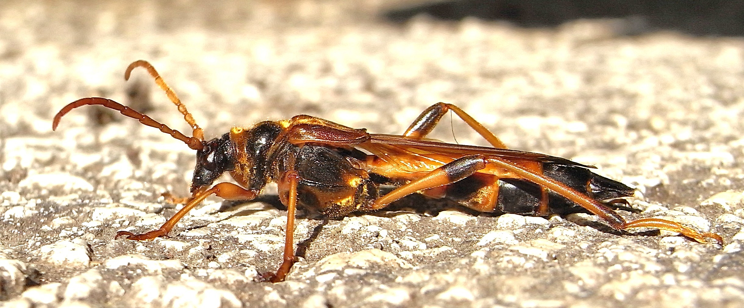 Necydalis ulmi female from Hungary, photographed on 2010-07-08 Ricoh R8